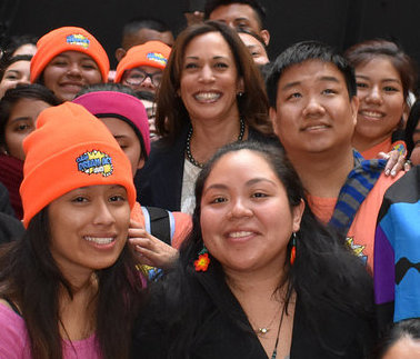 Meeting with Dreamers 12/21/17